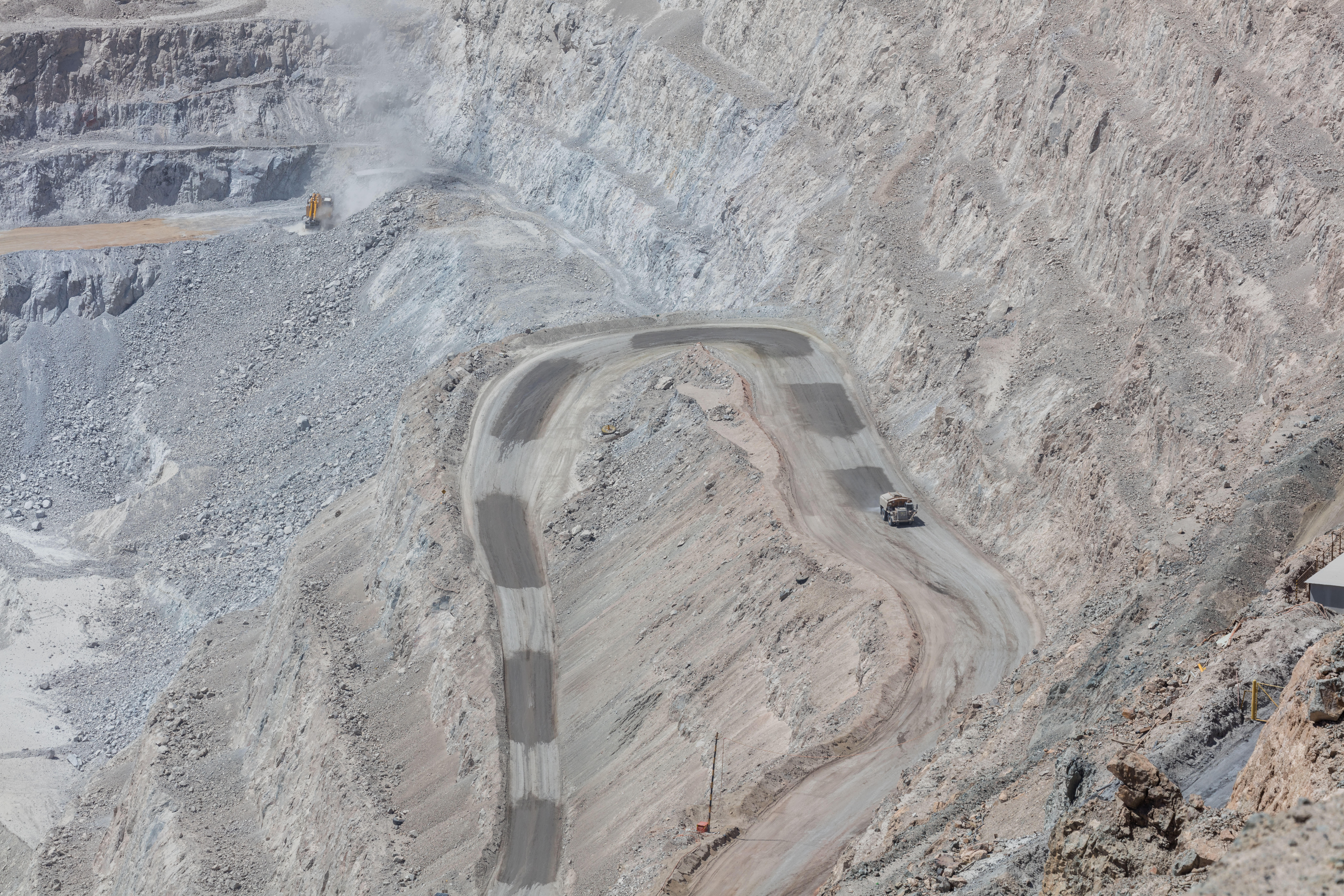 Chuquicamata Mine, Calama, Chile